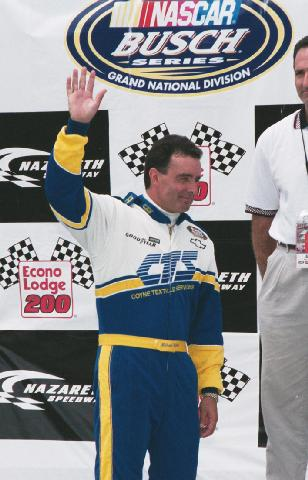 Mike Stefanik, NASCAR Busch Series Driver of the #90 CTS in 2000